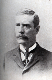 Samuel A. Cook, US Representative from Wisconsin